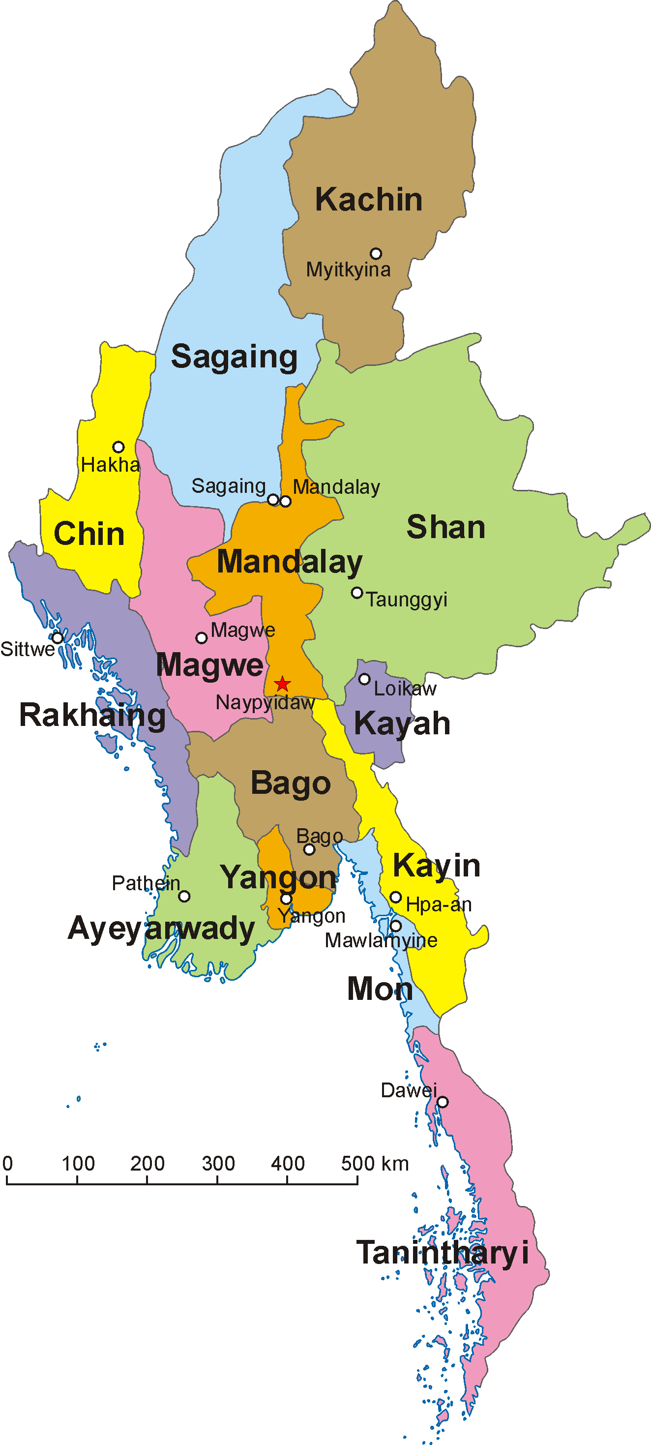 The fourteen administrative divisions of Burma (States and Regions).